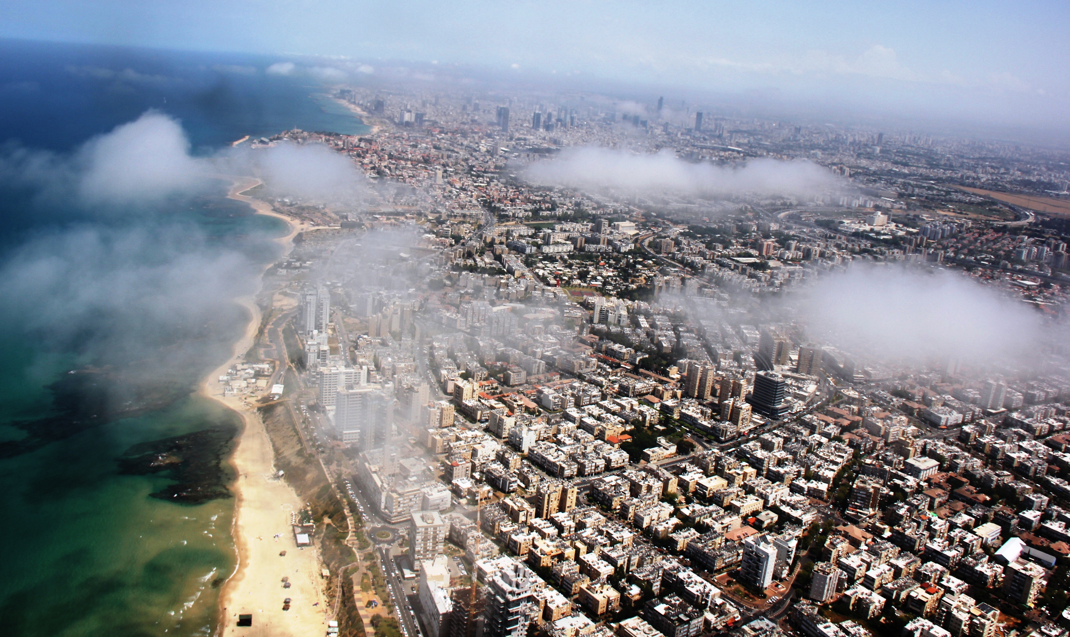 Flying over the coastline and the identification of individual clouds floating in the center of the country over the coastline